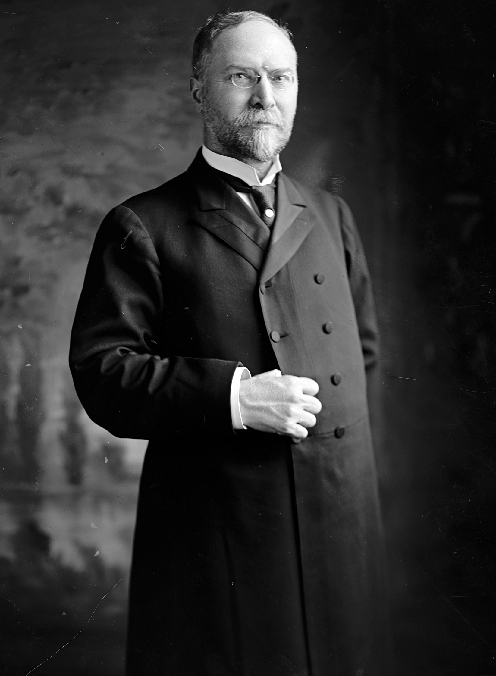 James McCleary, US Representative from Minnesota